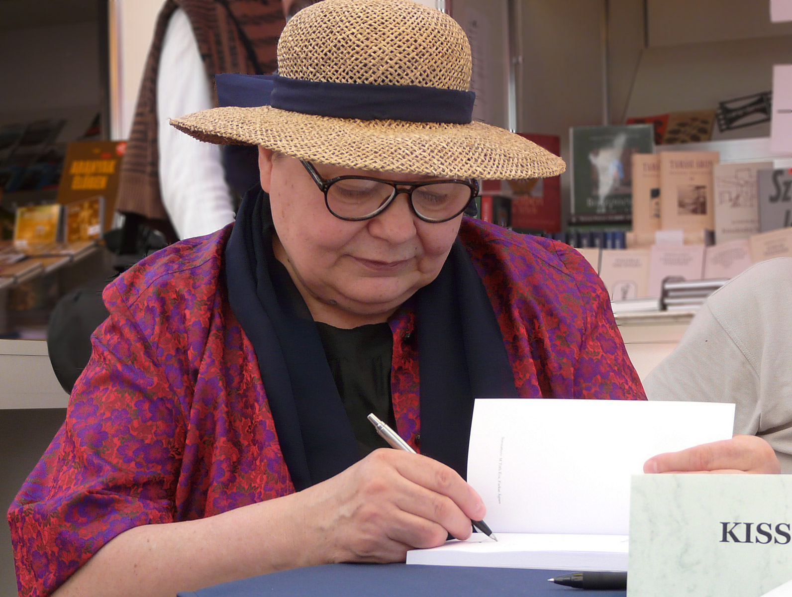 Anna Kiss Hungarian poet at a book signing, Juin 2010.